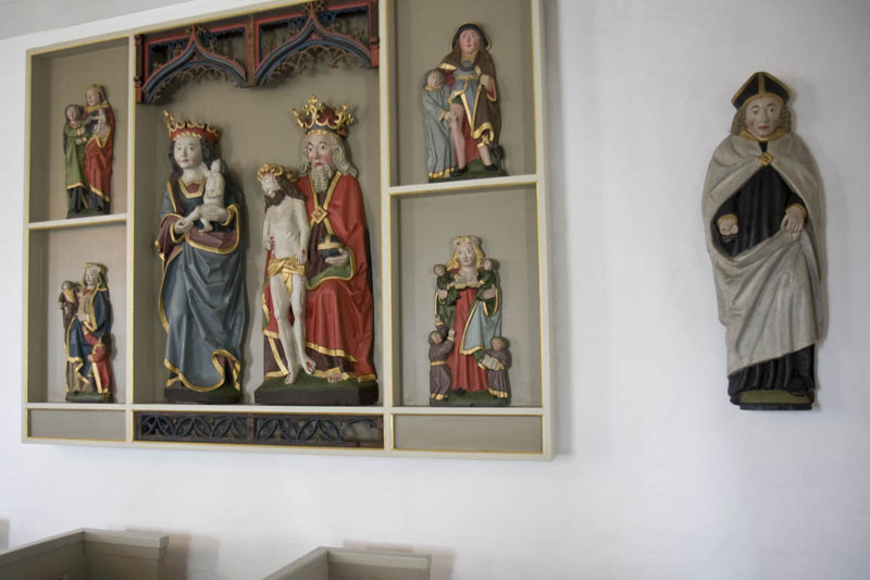 Råbjerg Kirke, Denmark, figuregroup, former altarpiece